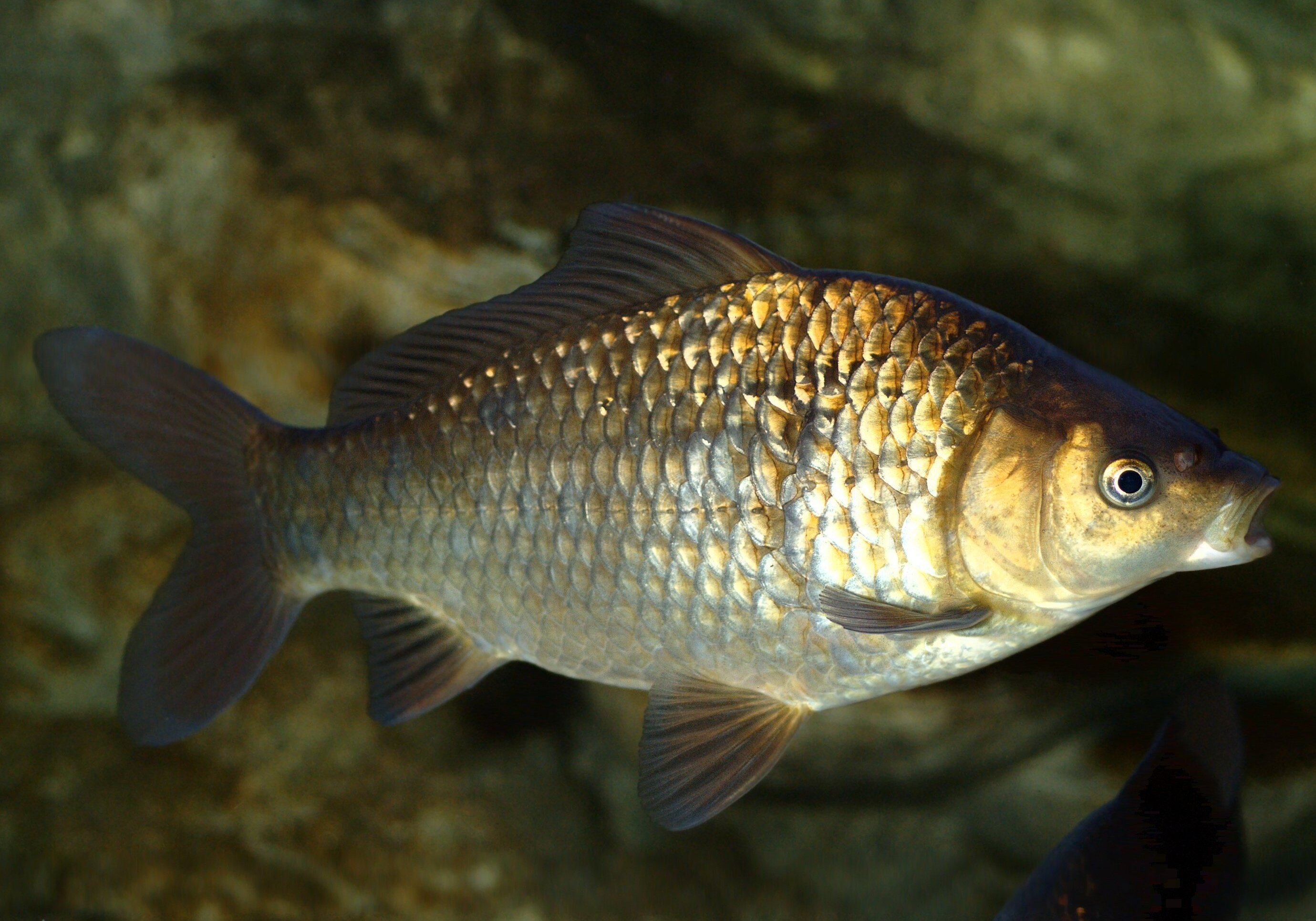 Crucian Carp.